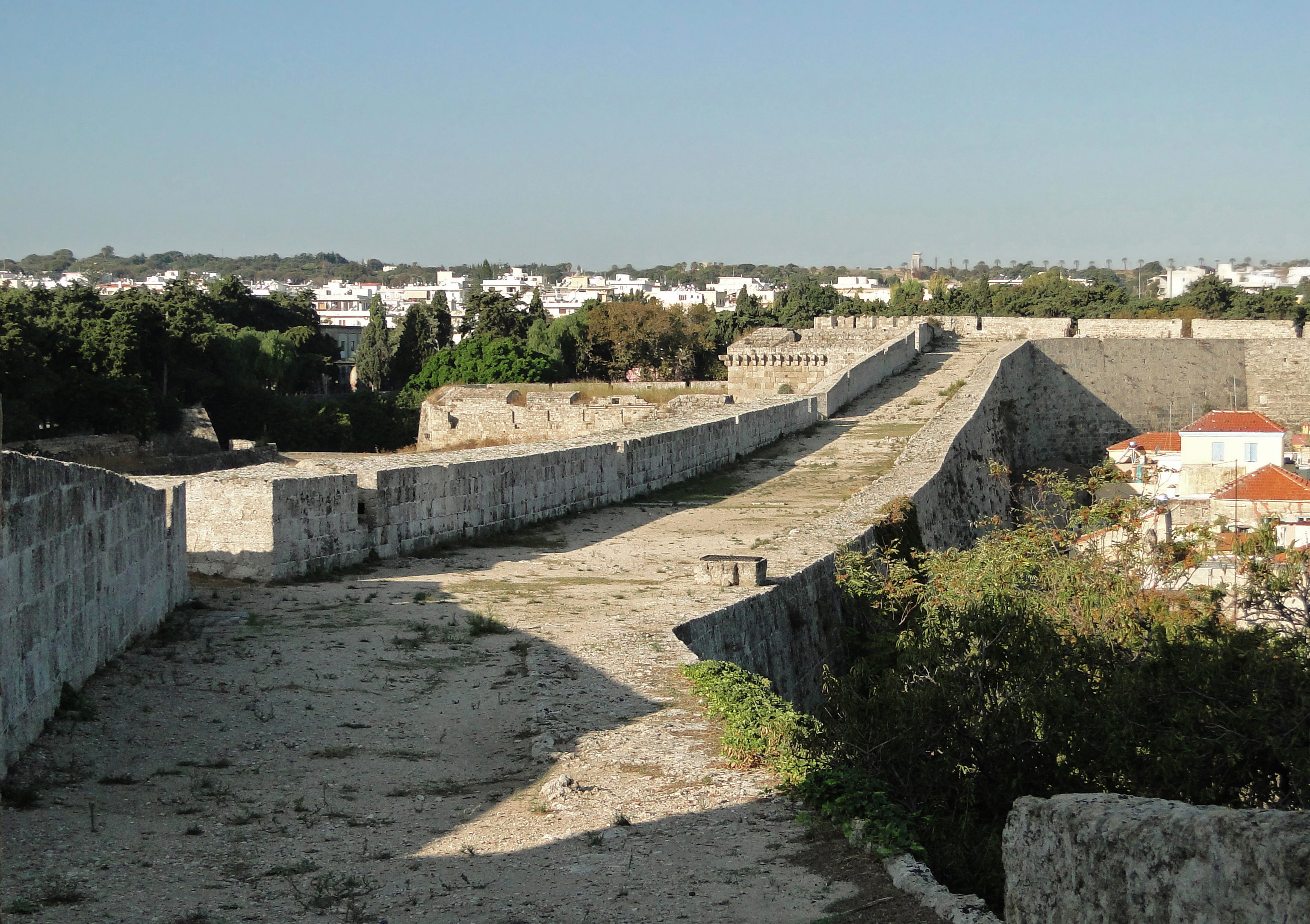 Chemin de ronde on the Southern Walls of the Medieval City of Rhodes, Greece